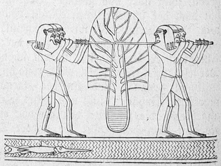 Image from page 796 of journal Die Gartenlaube, 1886.